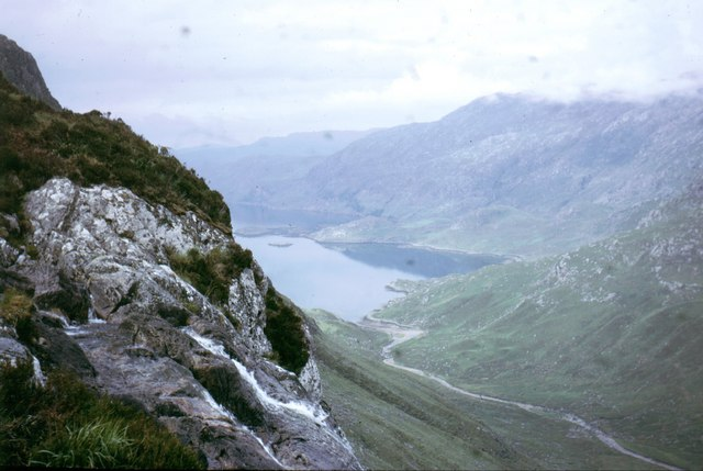 Top of Eas Coul Aulin Loch Beag can be seen in the distance.